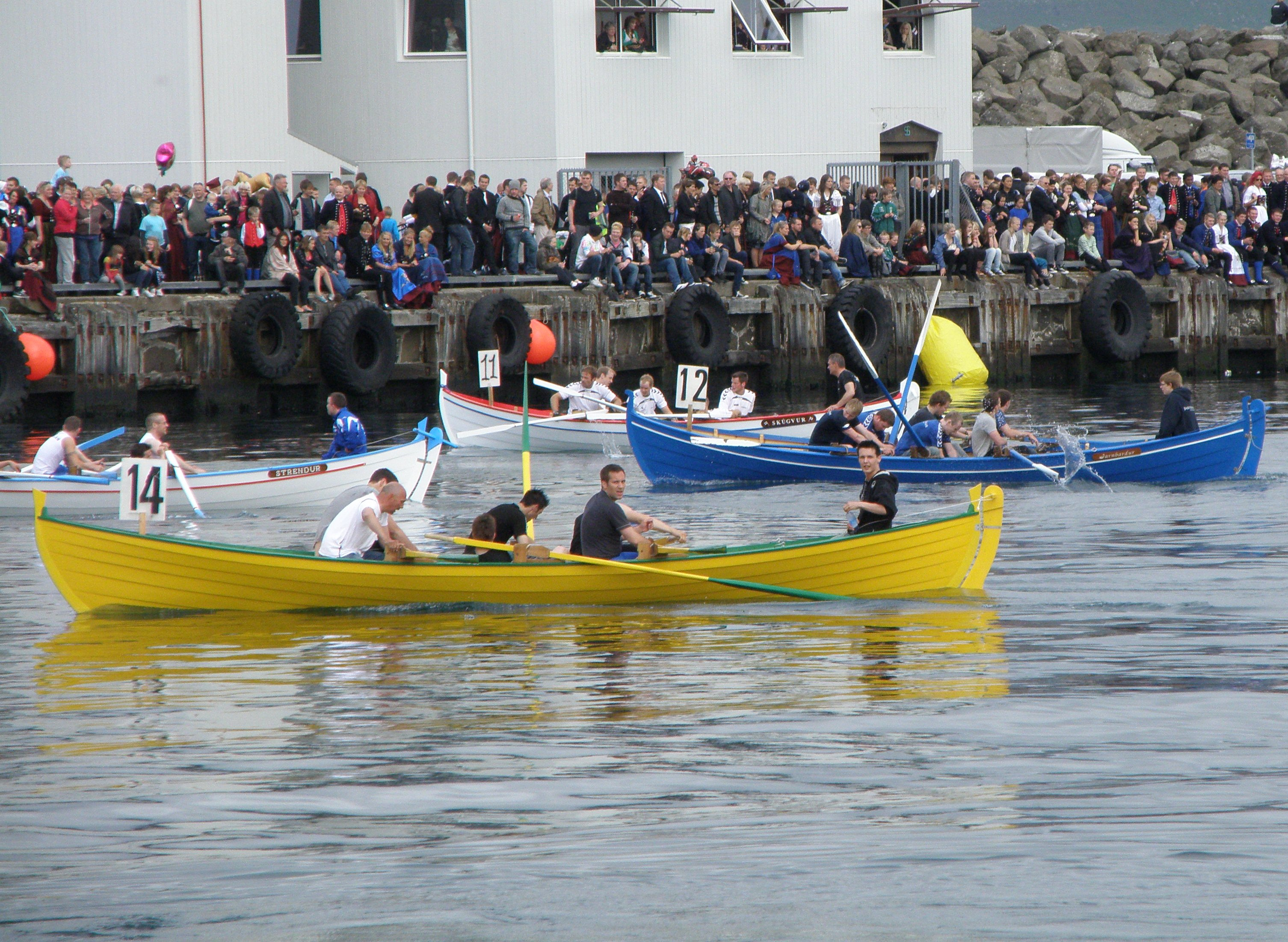 Wooden Faroese rowing boats just after one of the boat races at the Olavsoka boat race festival (National Holiday) in Tórshavn on 28 July 2010. The yellow boat in the foreground is Húsfrúgvin from Sandoy island. The other boats are from left to right: Strálan from Strendur, Skúgvur from Sandavágur and Jarnbardur from Knørrur Rowing Club in Tórshavn (the blue boat). These boats are in the category 6-mannafør for men. Føroyskt: Kappróður á Ólavsøku 2010. Myndin er tikin beint eftir at 6-mannafør hjá monnum vóru komin á mál. Páll Fangi vann róðurin. Fleiri av bestu bátunum boykottaðu henda róðurin á Ólavsøku, tí ósemja var um eitt mál viðvíkjandi Páll Fanga. T.d. luttóku Riddarin, Smyril og Tvørábáturin ikki til henda ólavsøkuróðurin. Guli báturin fremst á myndini er Húsfrúgvin av Sandoynni, hvíti báturin vinstrumegin er Strálan av Strondum. Hinir báðir bátarnir eru Skúgvur úr Sandavági og Jarnbardur hjá Róðrarfelagnum Knørri úr Havn.